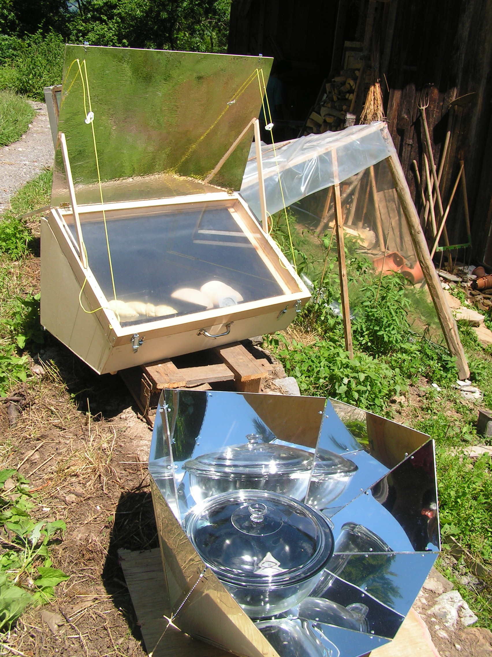 Sun oven made to cook with the sun: more information on